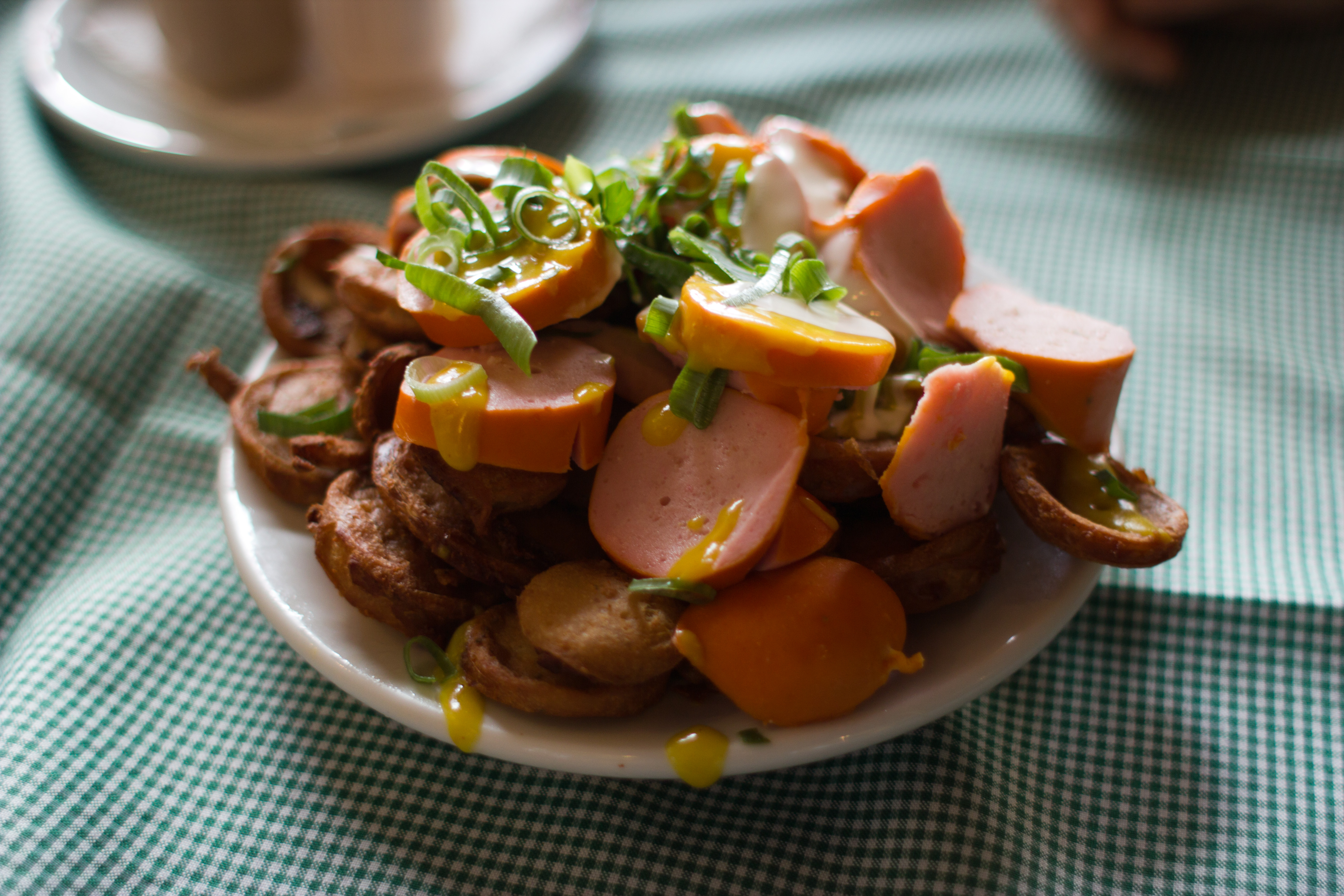 Food at WikiCuritiba March 2012